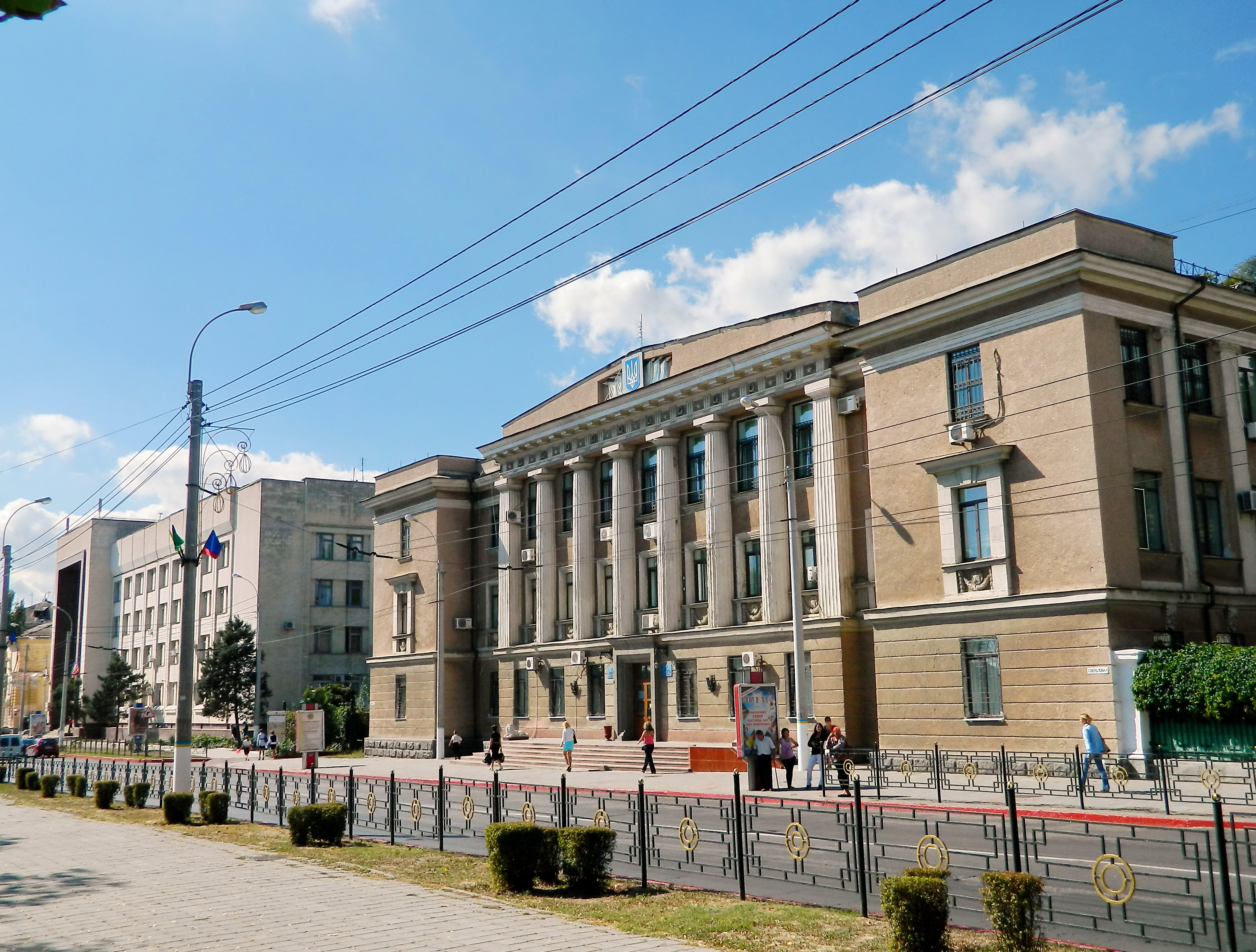 Municipal Court building in Kerch.